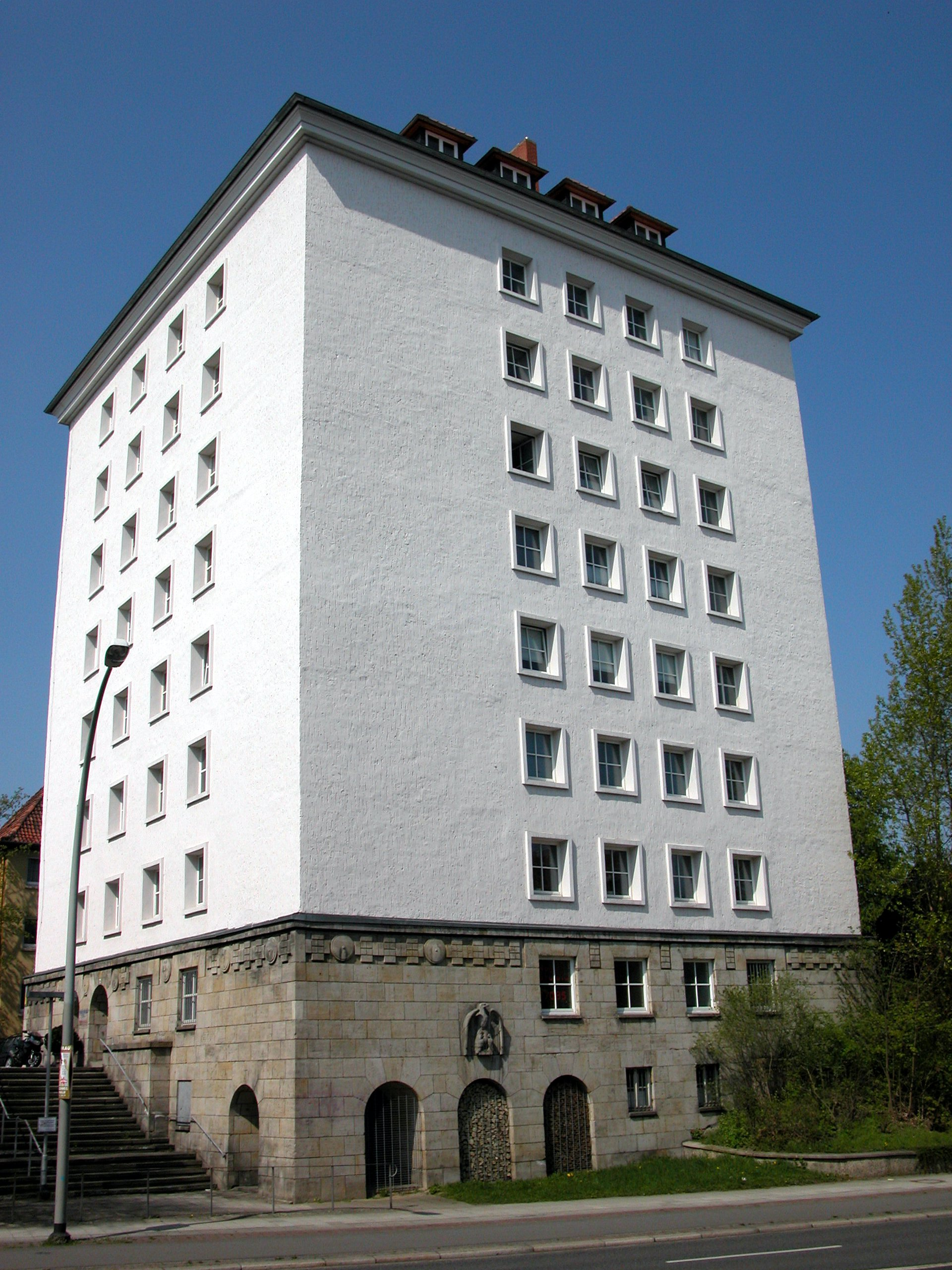 Brunswick, Germany: High rise air raid shelter, now converted into an apartment building.